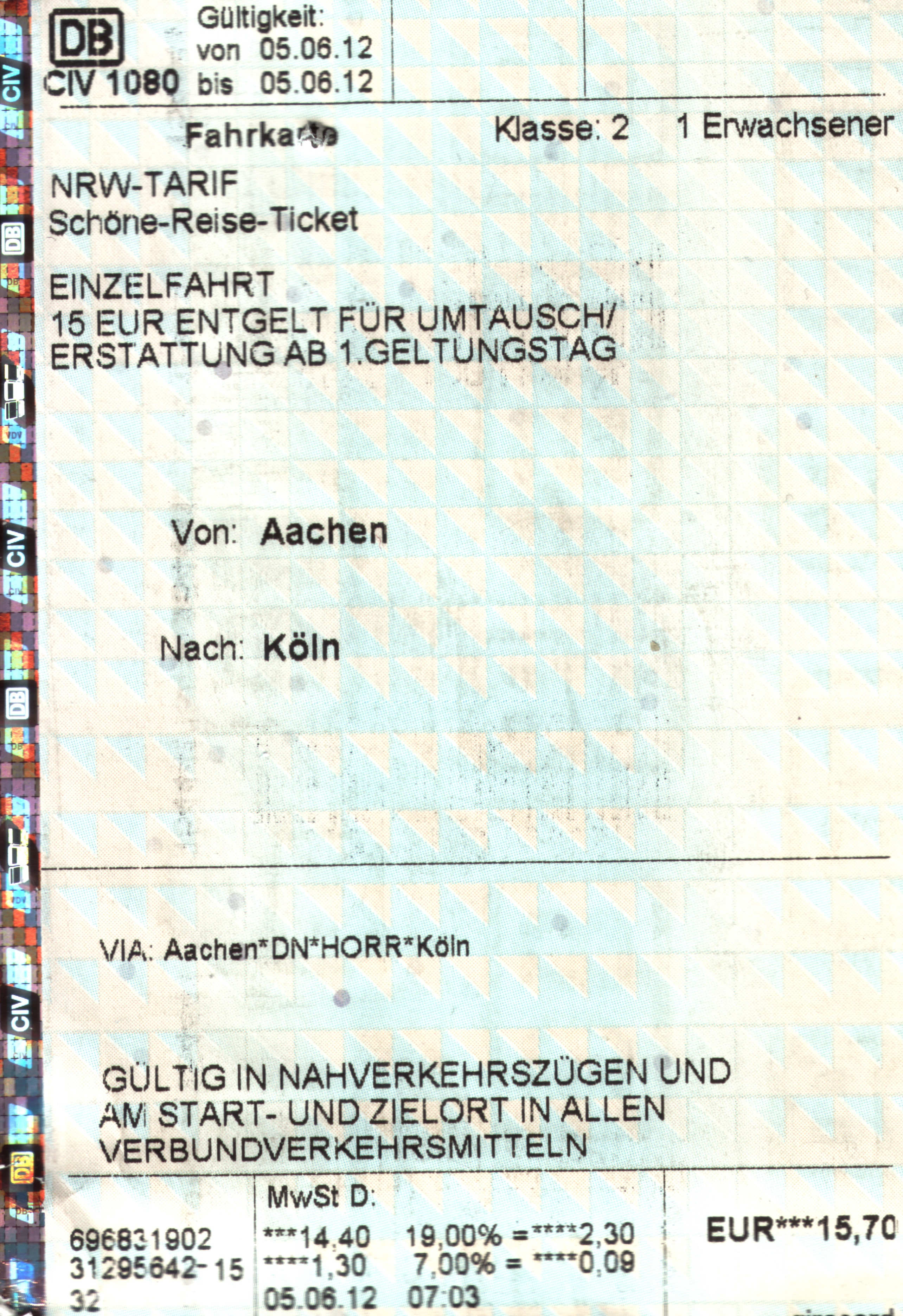 NRW Schöne-Reise-Ticket